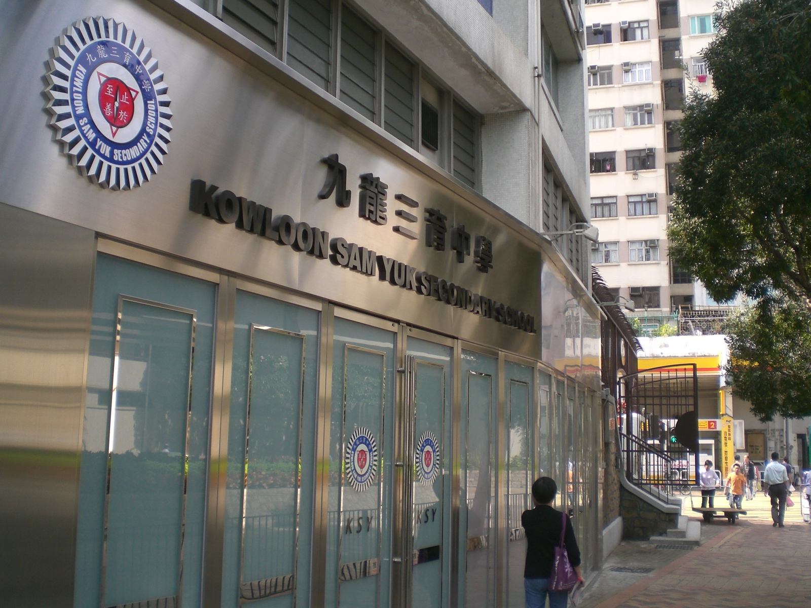 太子 (香港)界限街, 九龍三育中學, Kowloon Sam Yuk Secondary School, Boundary Street, Kowloon, Hong Kong.